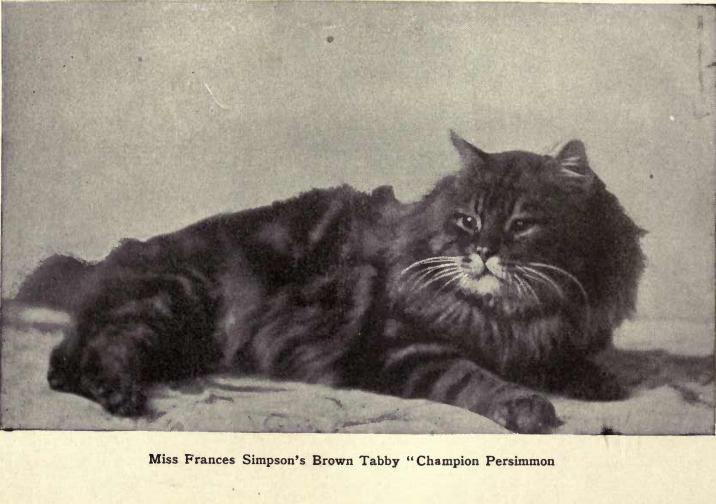 Brown Tabby Persian owned by Frances Simpson